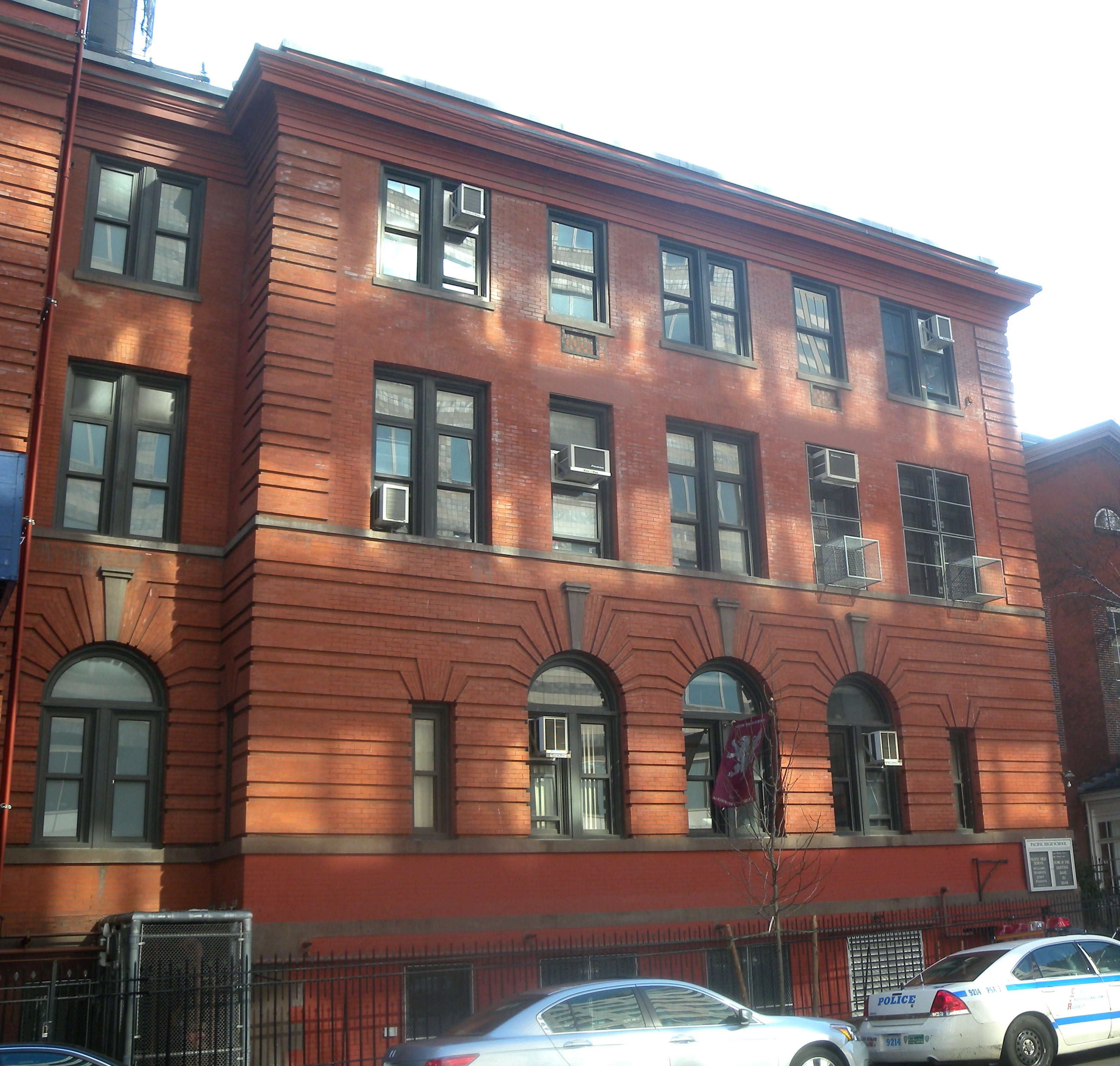 Looking southwest across Schermerhorn St at Pacific High on a sunny afternoon.